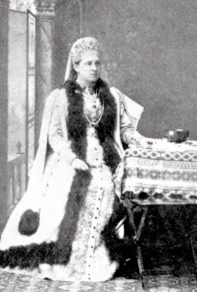 Russian ball at the GD Vladimir Alex. and Maria Pavlovna's Palace on the 25th january of 1883 . Olga Constantinovna